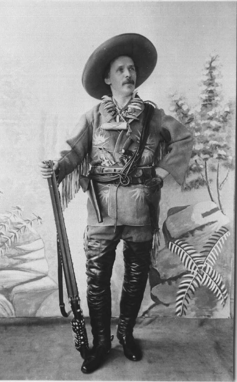 Karl May like Old Shatterhand (1896)